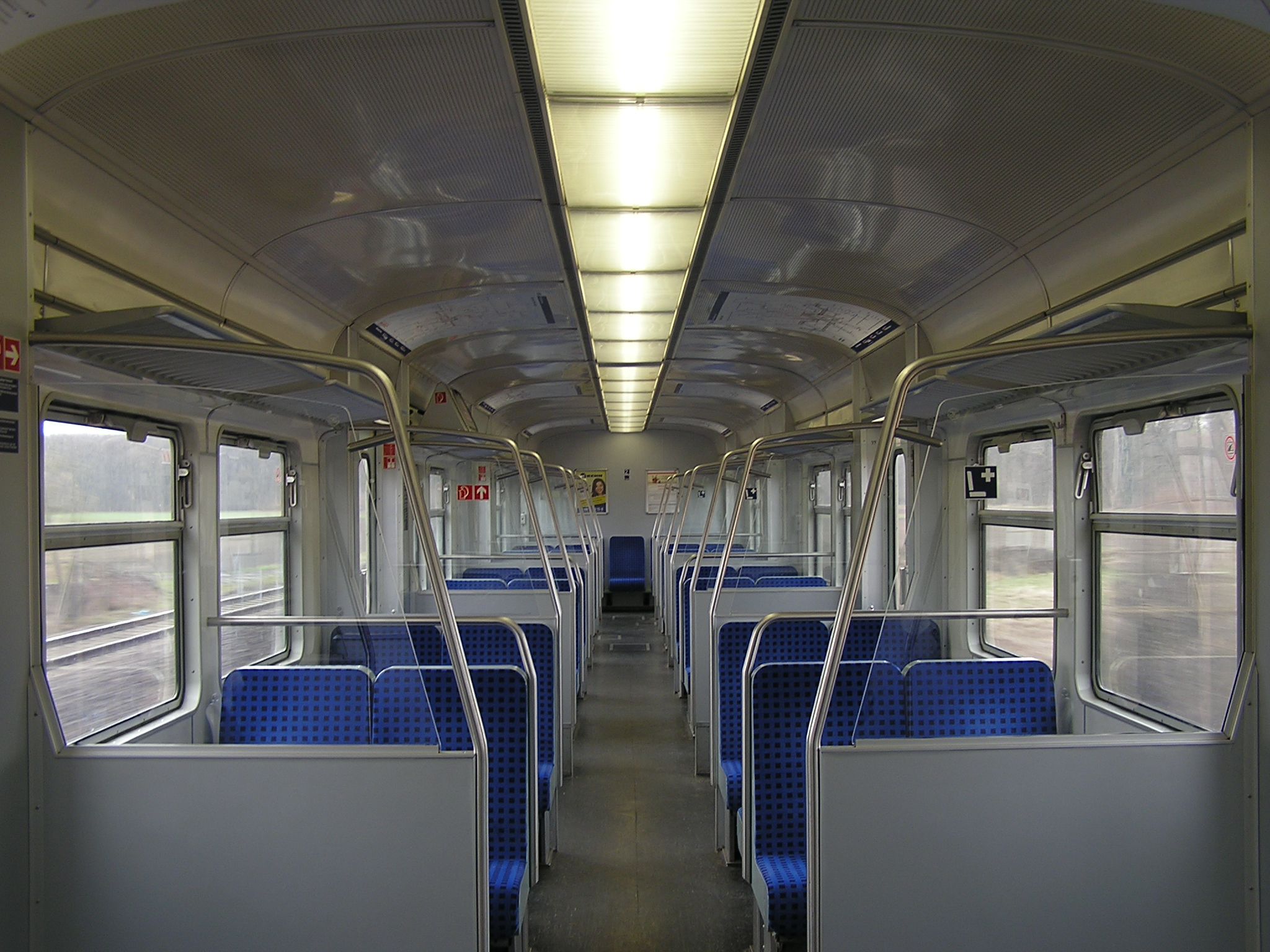 Interior of a multiple unit class 420